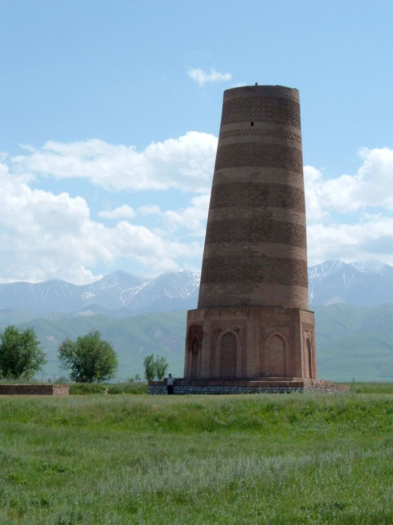 The Burana Tower in Kyrgyzstan, showing the restored, western-facing side.